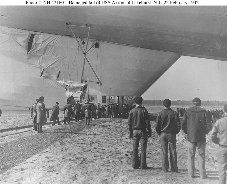 USS Akron (ZRS-4) Damage to the airship's lower fin, 22 February 1932. Akron was being removed from her hangar at Naval Air Station Lakehurst, New Jersey, when the wind caused her tail to break loose from the rail car used for maneuvering the airship on the ground. A party of Congressmen was waiting to board Akron at the time, and Rear Admiral William A. Moffett, Chief of the Bureau of Aeronautics, was also present. This photograph was taken immediately after the accident, and shows RAdm. Moffett in the left center, facing the camera. Though her fin was seriously damaged, Akron was repaired in about two months.